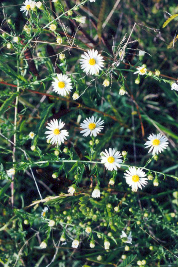 Symphyotrichum pilosum (Willd.) G.L. Nesom var. pilosum - hairy white oldfield aster